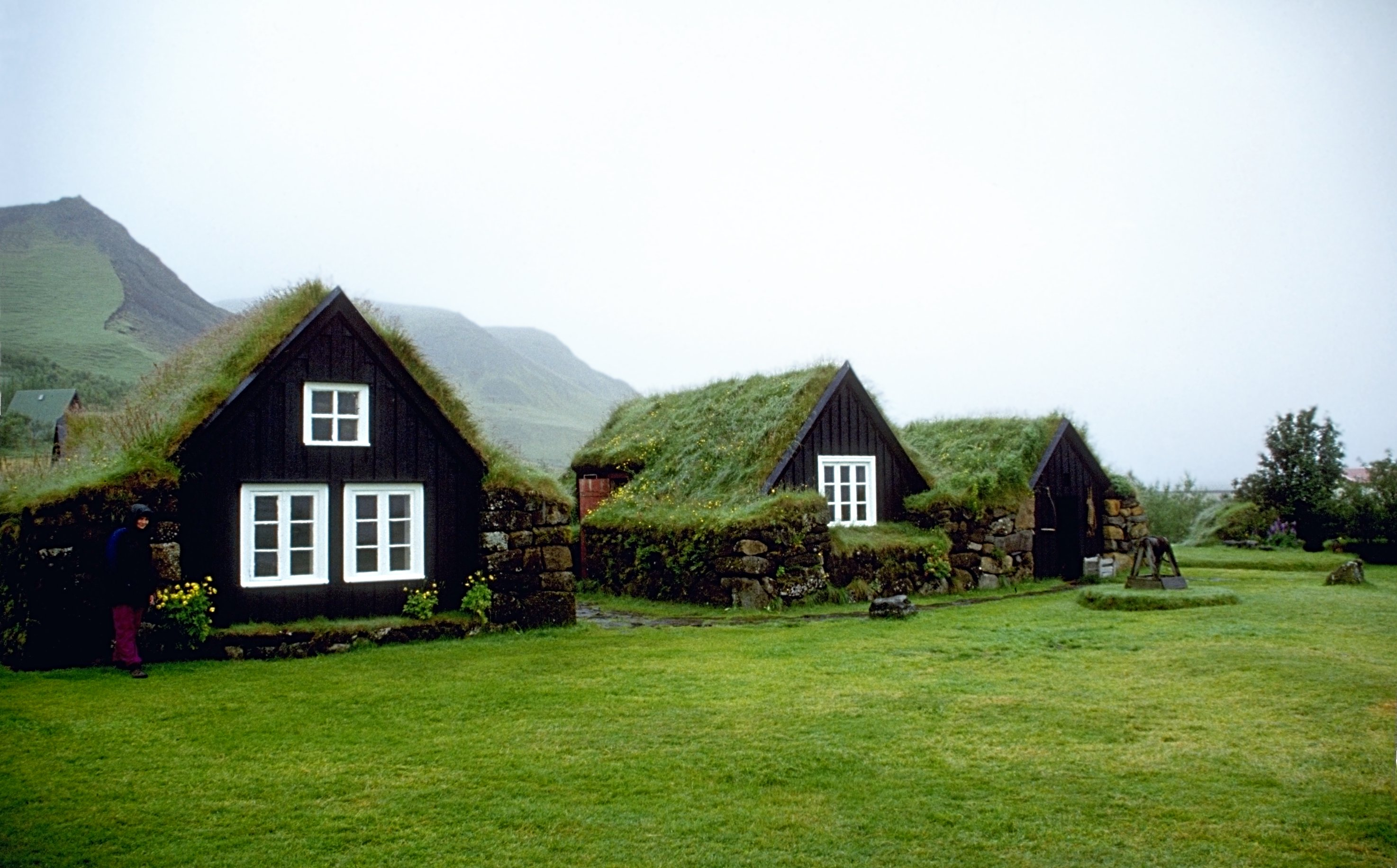 Museum of Skógar, Iceland Photo was taken using the following technique: Film: Kodak Elite 100 Lens: 28-80 Filter: none Body: Minolta Dynax 600si Support: Image with Information in English Bild mit Informationen auf Deutsch